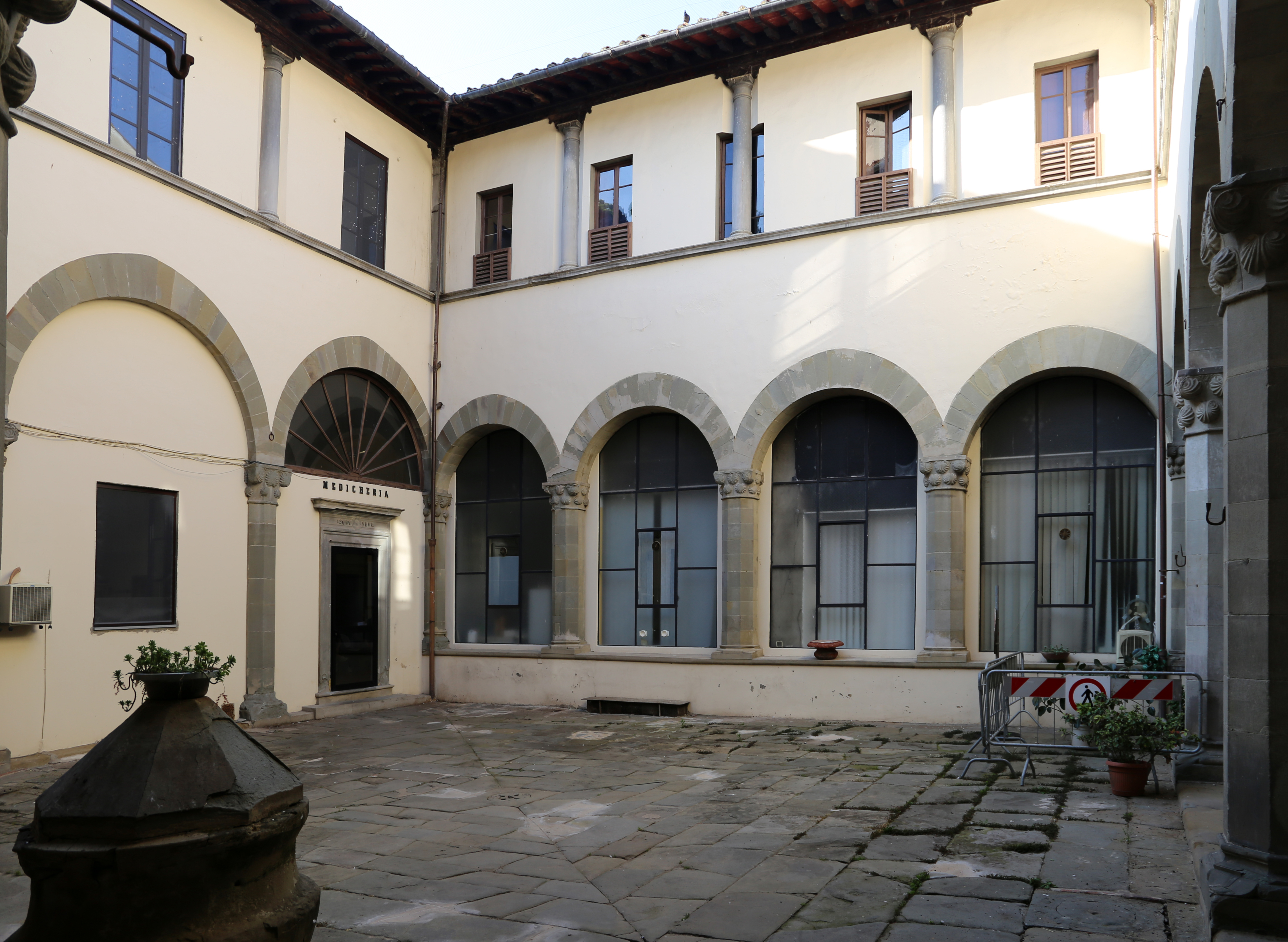 Villa San Cerbone